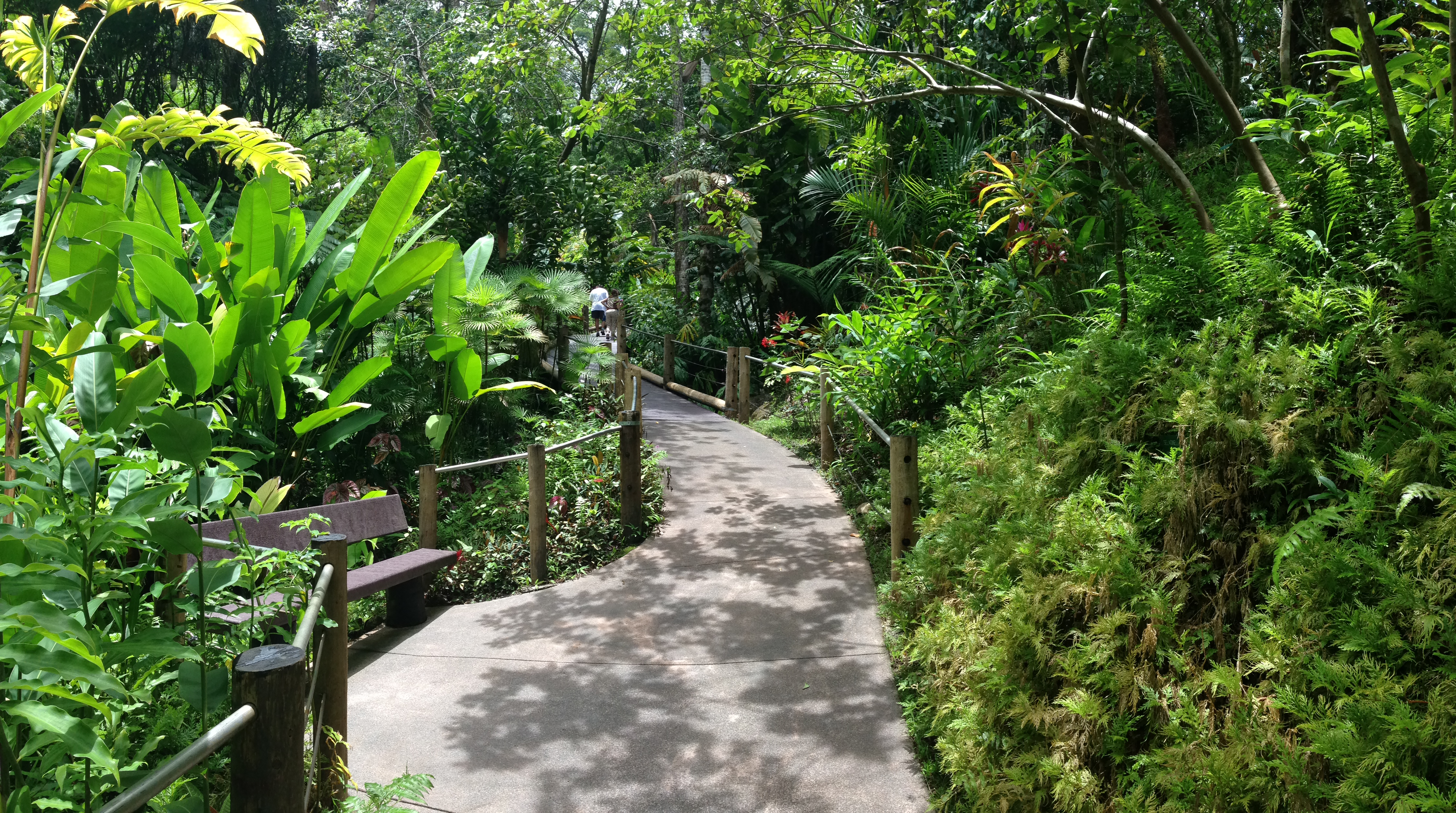 Typical Pathway at the Gardens